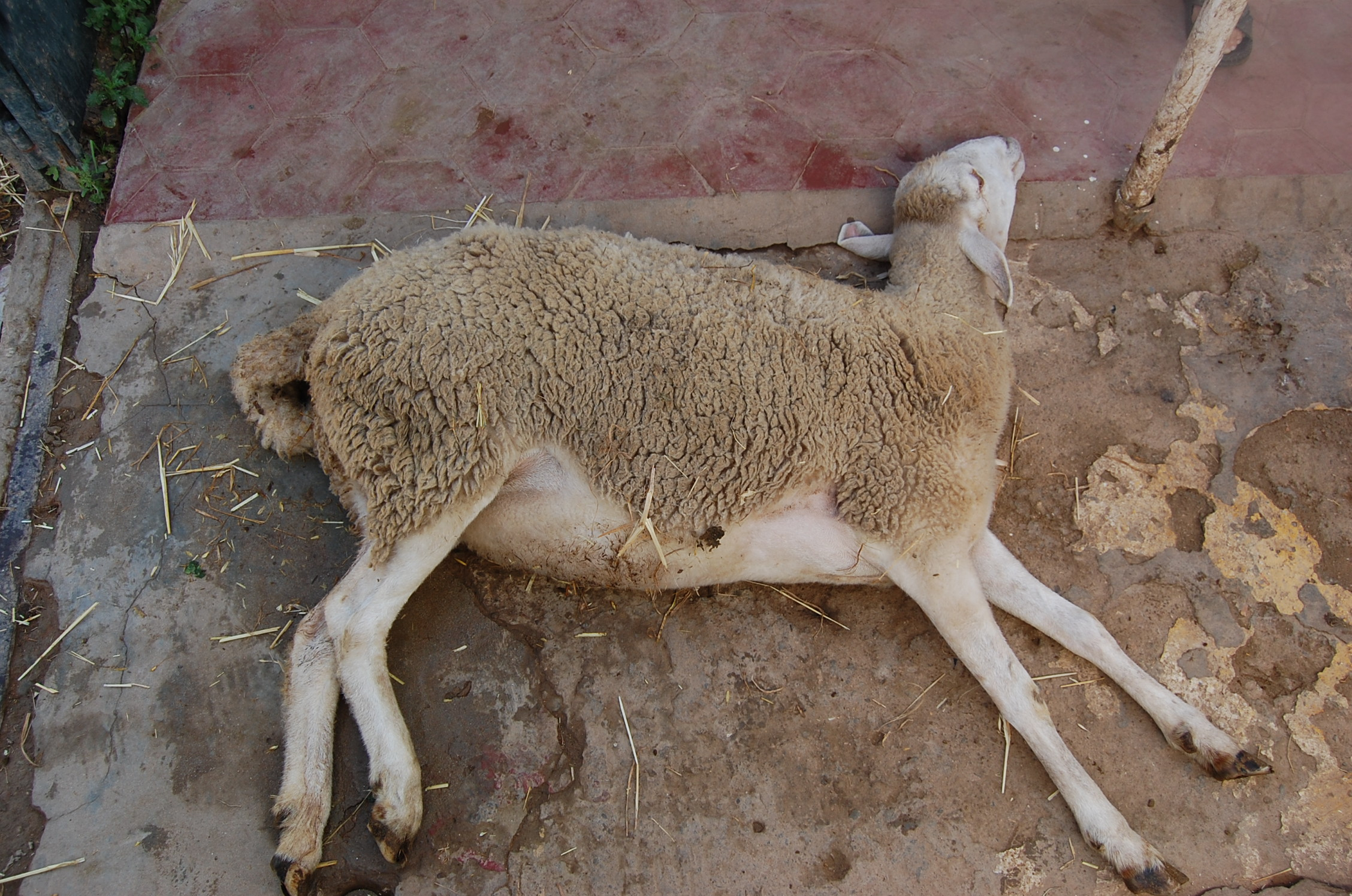 ewe with encephalomalacia lateral recumbency and opisthotonus; this ewe will recover after Vitamin B1 treatment (on this file)